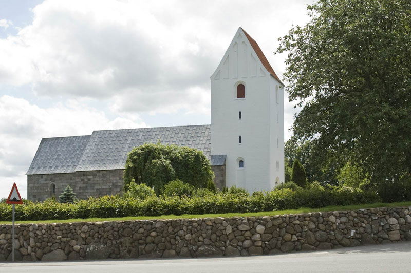 Asp Kirke, Denmark